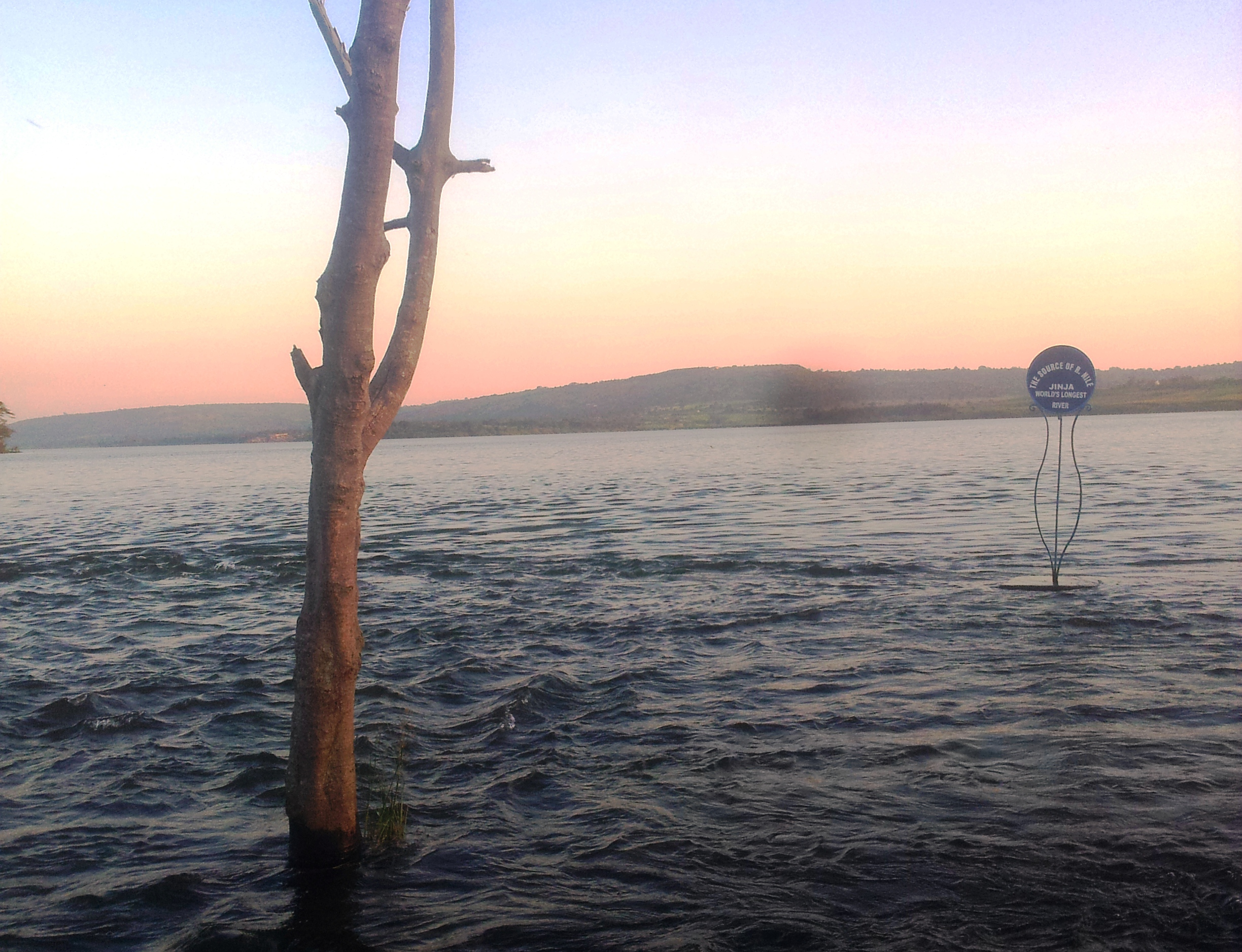 The source of Nile from the underwater Spring at the neck of Lake Victoria.